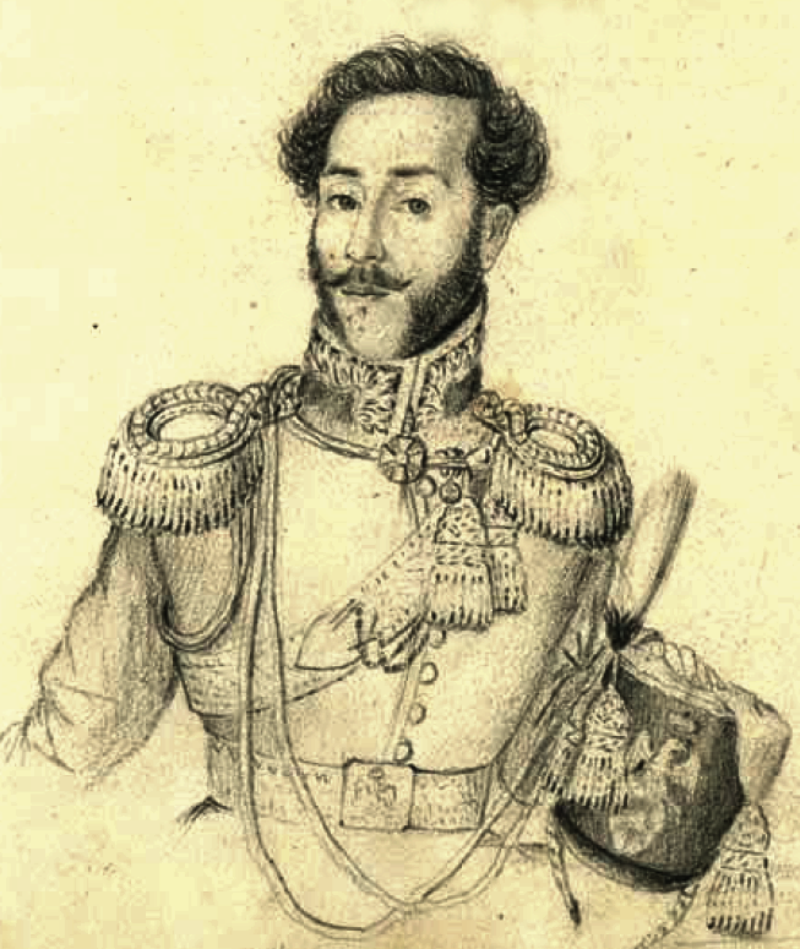 Drawing of Costache Ghica as a Wallachian 1st Regiment Colonel, drawn shortly after the army had been modernized.